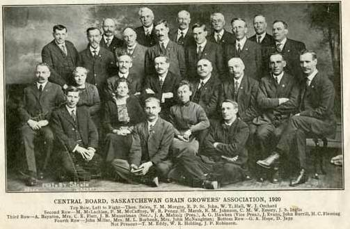 Central board, Saskatchewan Grain Growers Association and Heads of trading department. Page torn from an unknown printed source. PH-92-234-1 has an image of Central Board, Saskatchewan Grain Growers Association, 1920. Violet McNaughton seated front centre. Others are identified in caption. PH-92-234-2 on the reverse is titled Heads of Trading Department with five portraits.